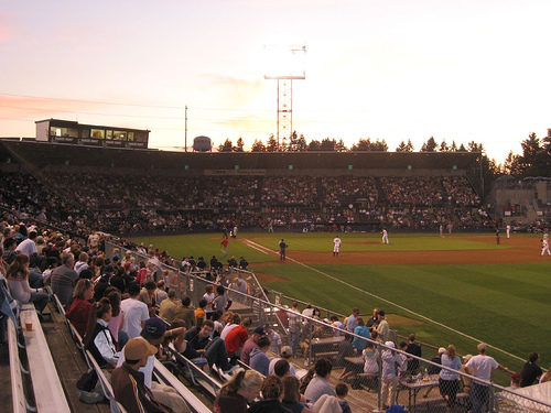 Cheney Stadium at sunset.